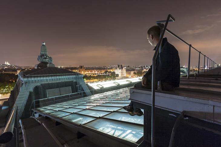 View from the roof of the Musée d'Orsay in Paris at night.